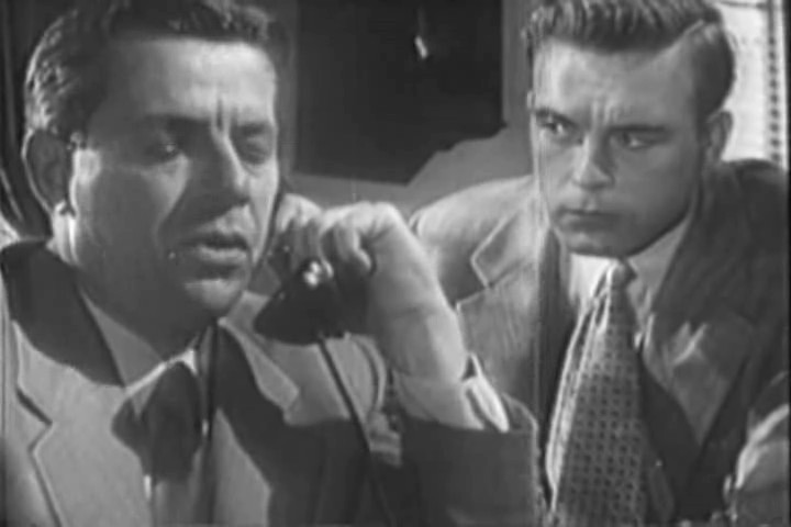 Richard Rober & Scott Brady in Port of New York (cropped screenshot)